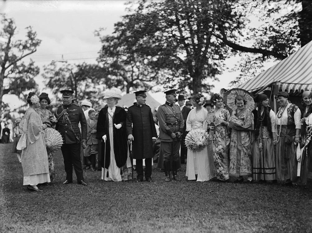 Photographs : Garden party, Casa Loma, 1 Austin Terrace, Toronto, Ontario, Canada; circa 1920; Fonds 1244, Item 697.